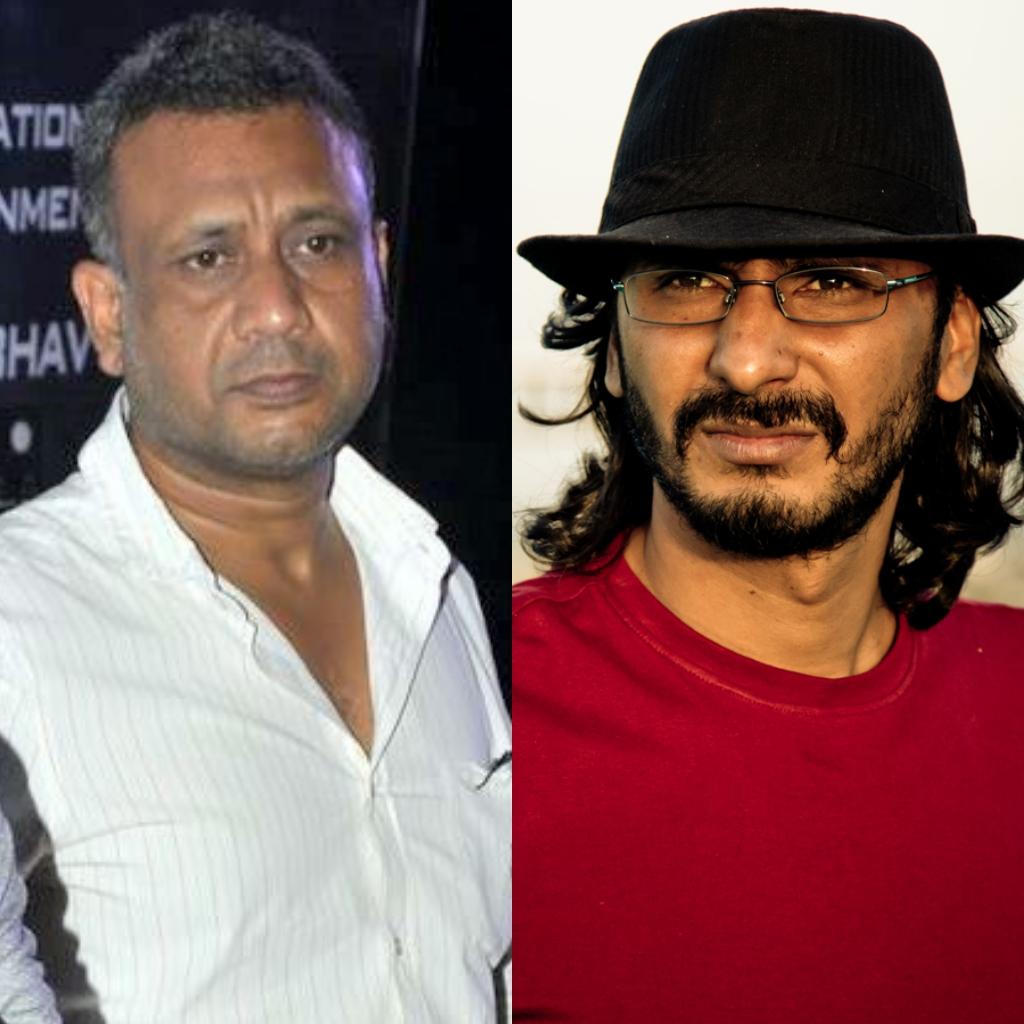 Indian actors Ayushmann Khurrana and Ranveer Singh (montage to illustrate their "tie" win of Filmfare Award)